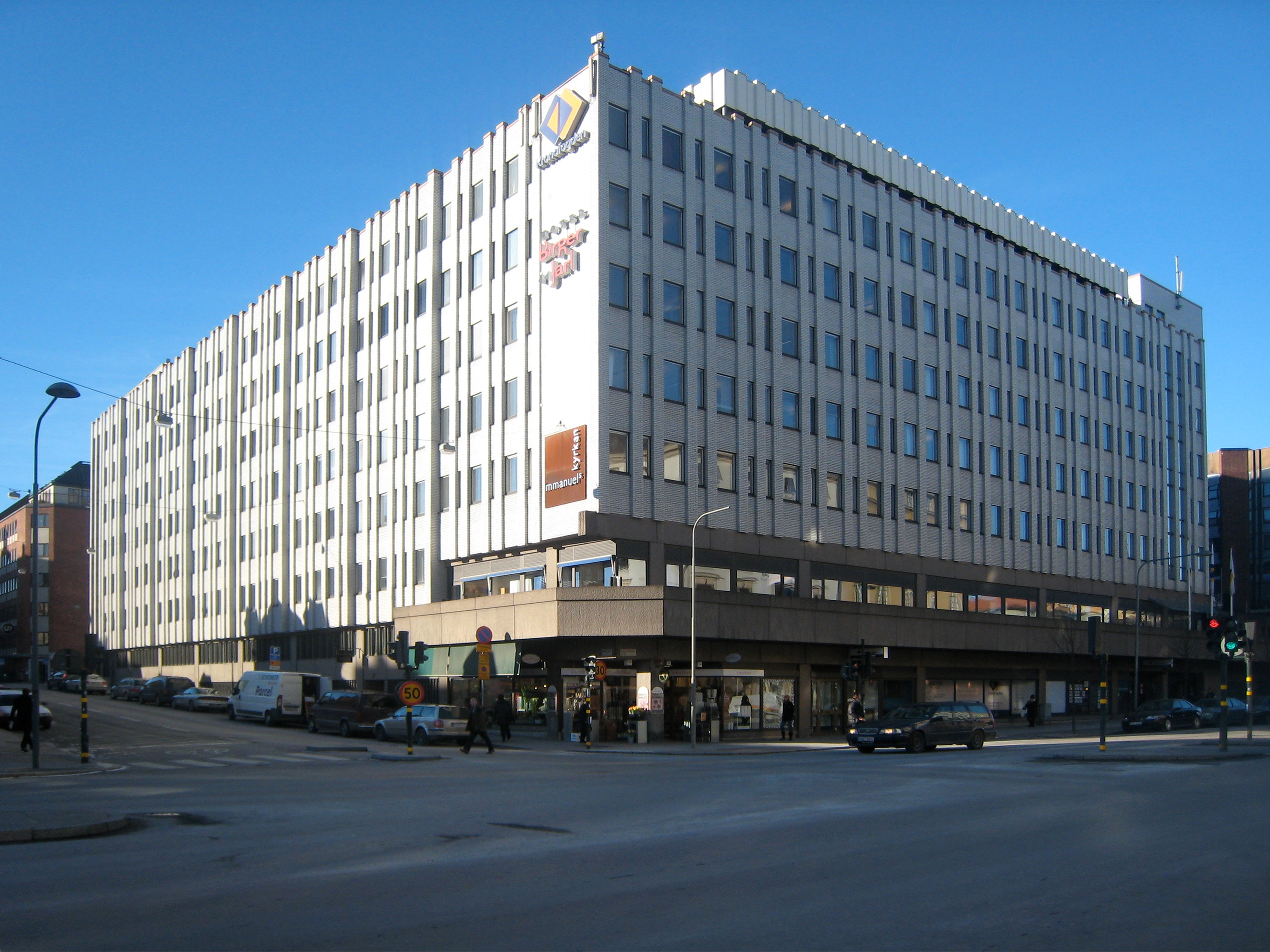 Kvarteret Provisorn